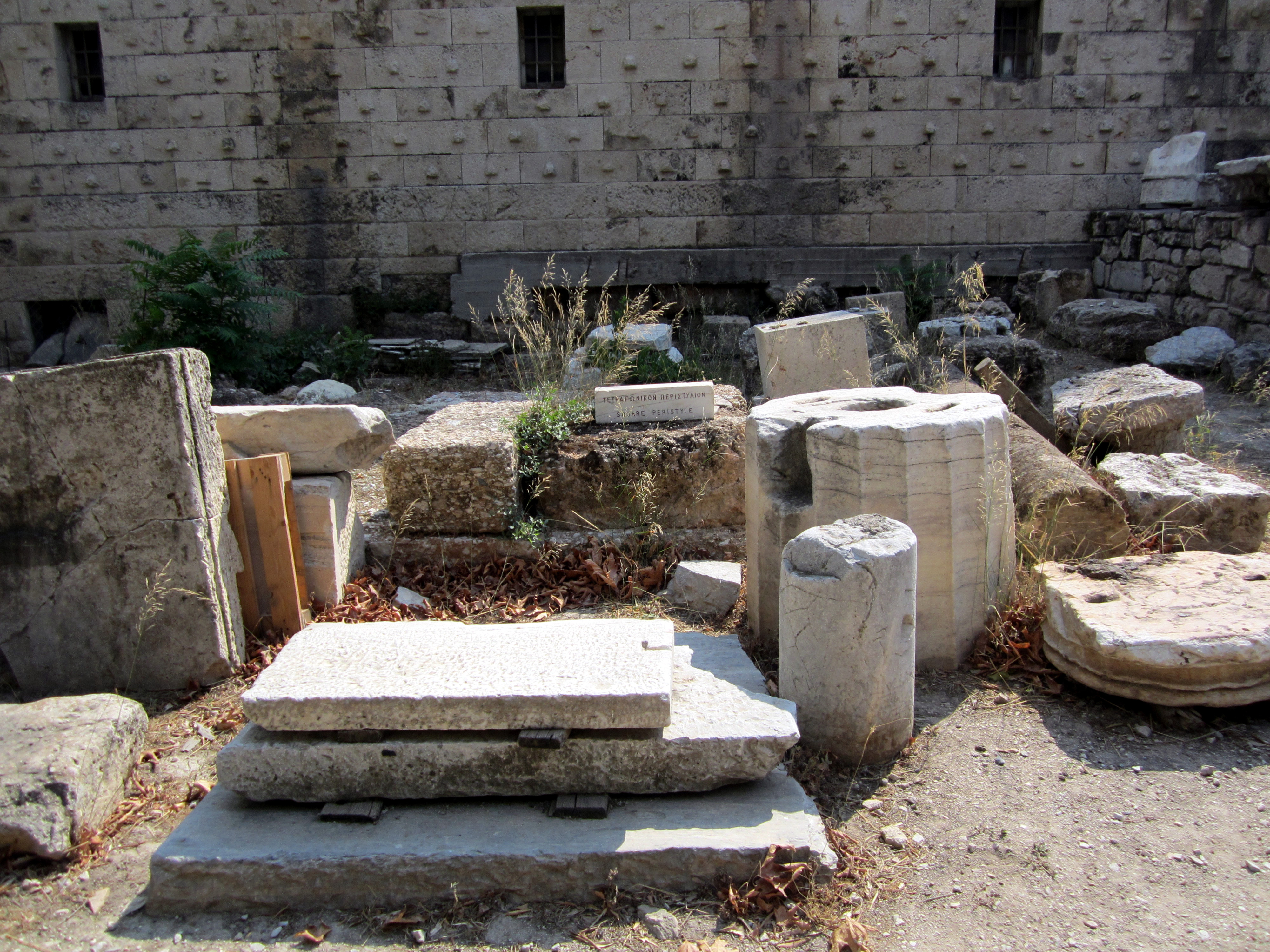 Remains of the Law Court (Square Peristyle) near the Stoa of Attalus, Ancient Agora of Athens.